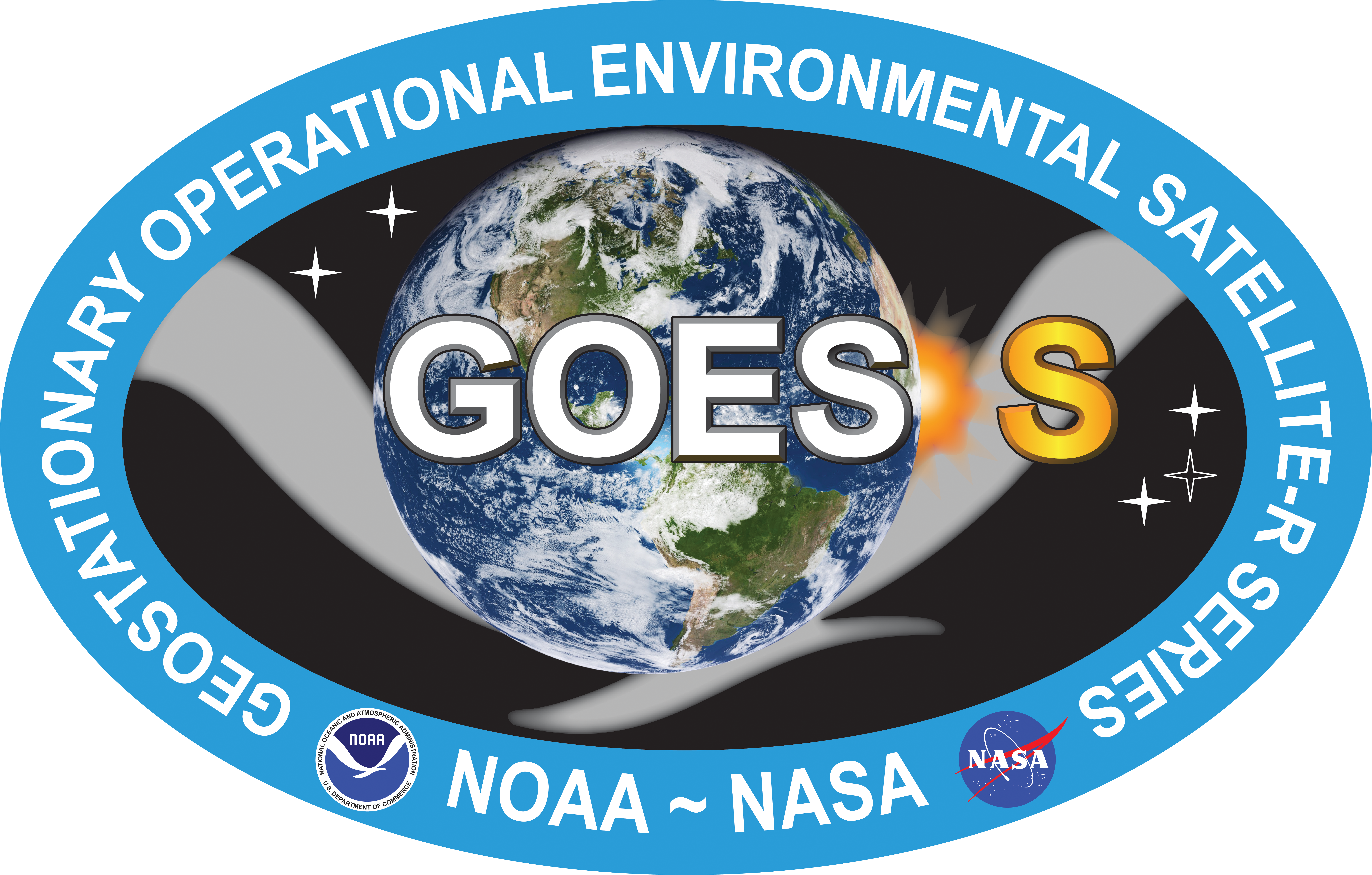 GOES-S Logo